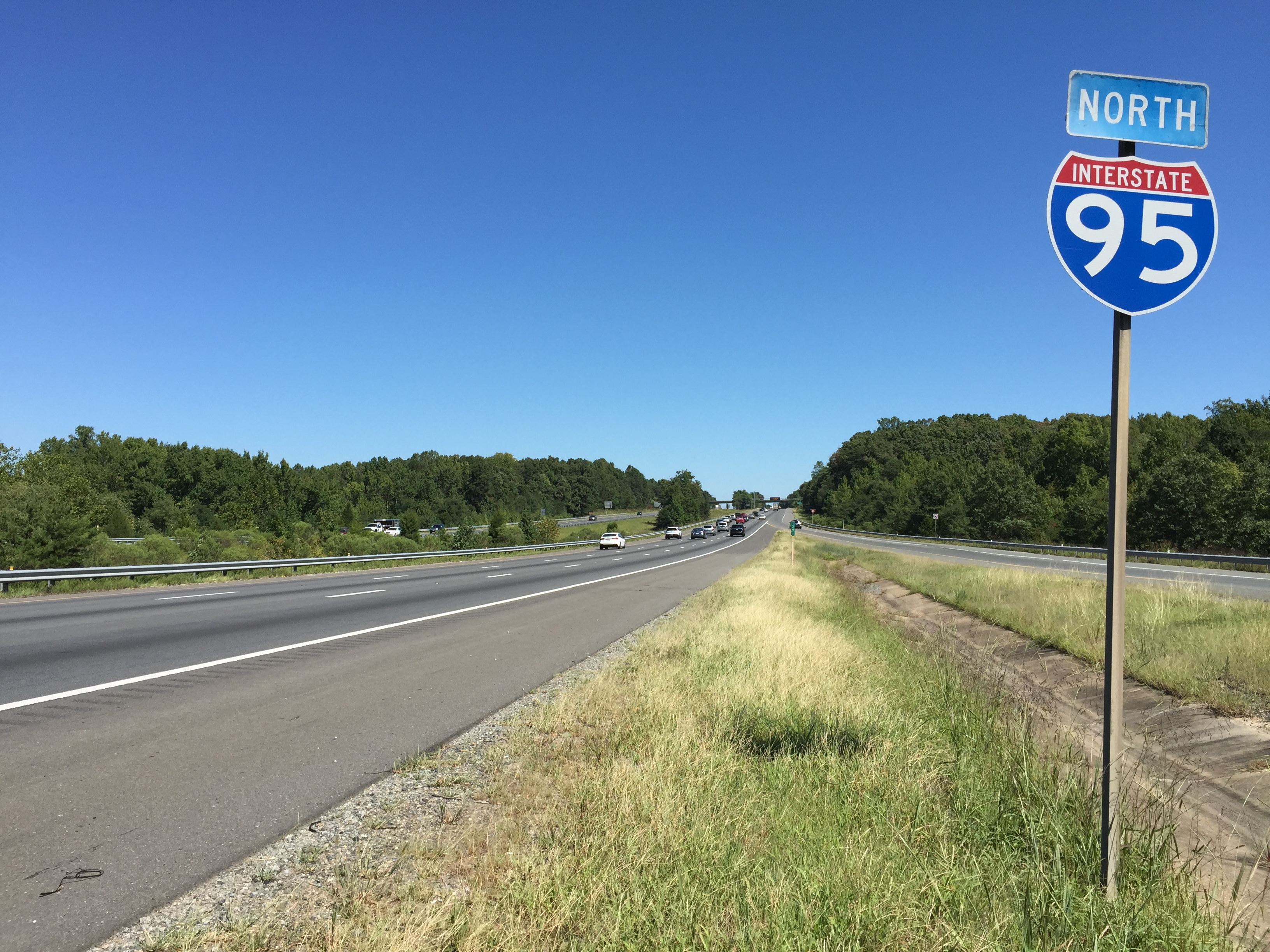 View north along Interstate 95 just north of Exit 133 (U.S. Route 17 North, U.S. Route 17 Business, Warrenton, Falmouth) in Southern Gateway, Stafford County, Virginia